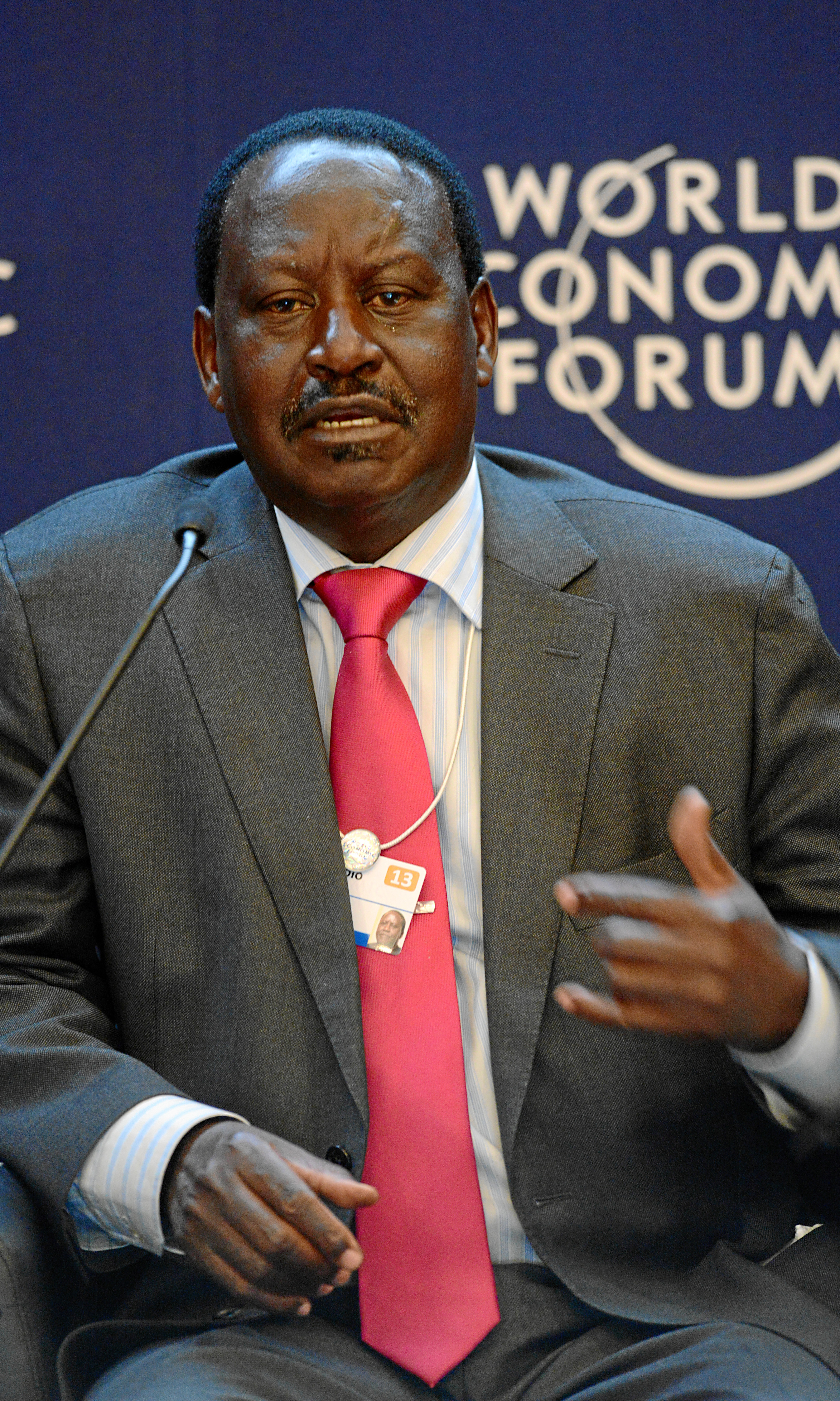 DAVOS/SWITZERLAND, 24JAN13 - Raila Amolo Odinga, Prime Minister of Kenya gestures during the session 'Accelerating Infrastructure Development' at the Annual Meeting 2013 of the World Economic Forum in Davos, Switzerland, January 24, 2013. . . Copyright by World Economic Forum. . Michael Wuertenberg